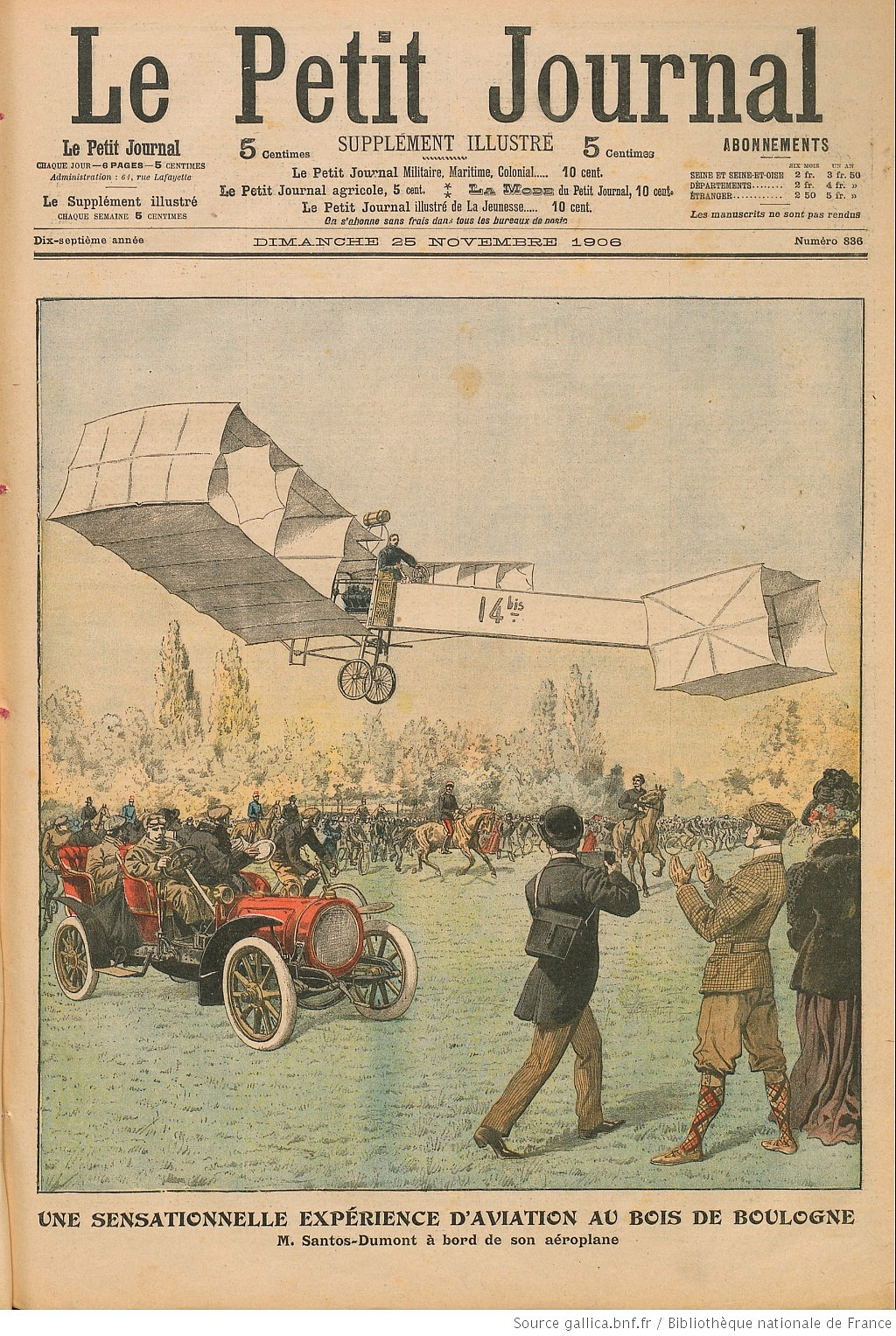 Le_Petit_Journal_Santos_Dumont_25_Novembre_1906.